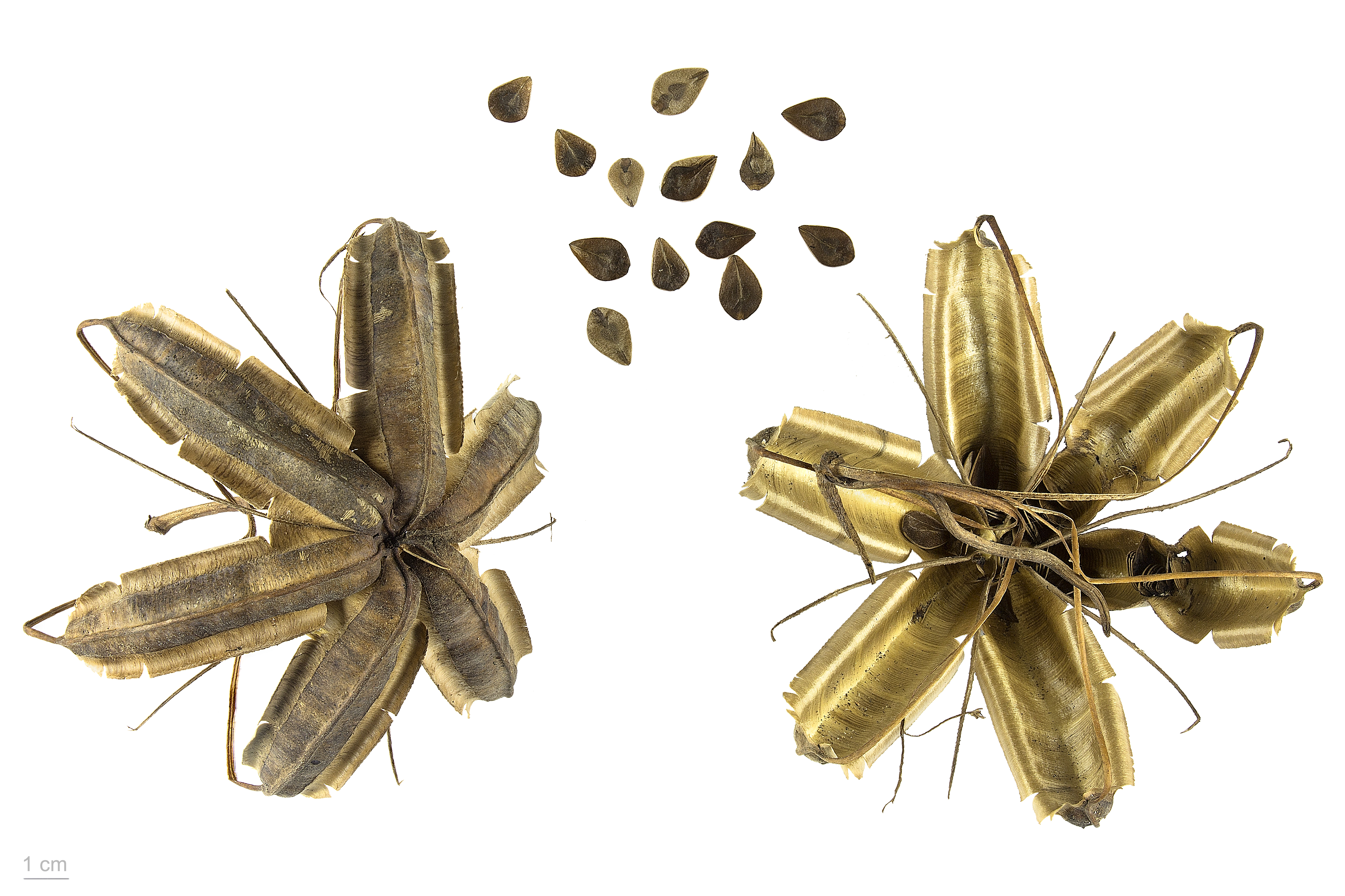 Aristolochia ringens, , seeds